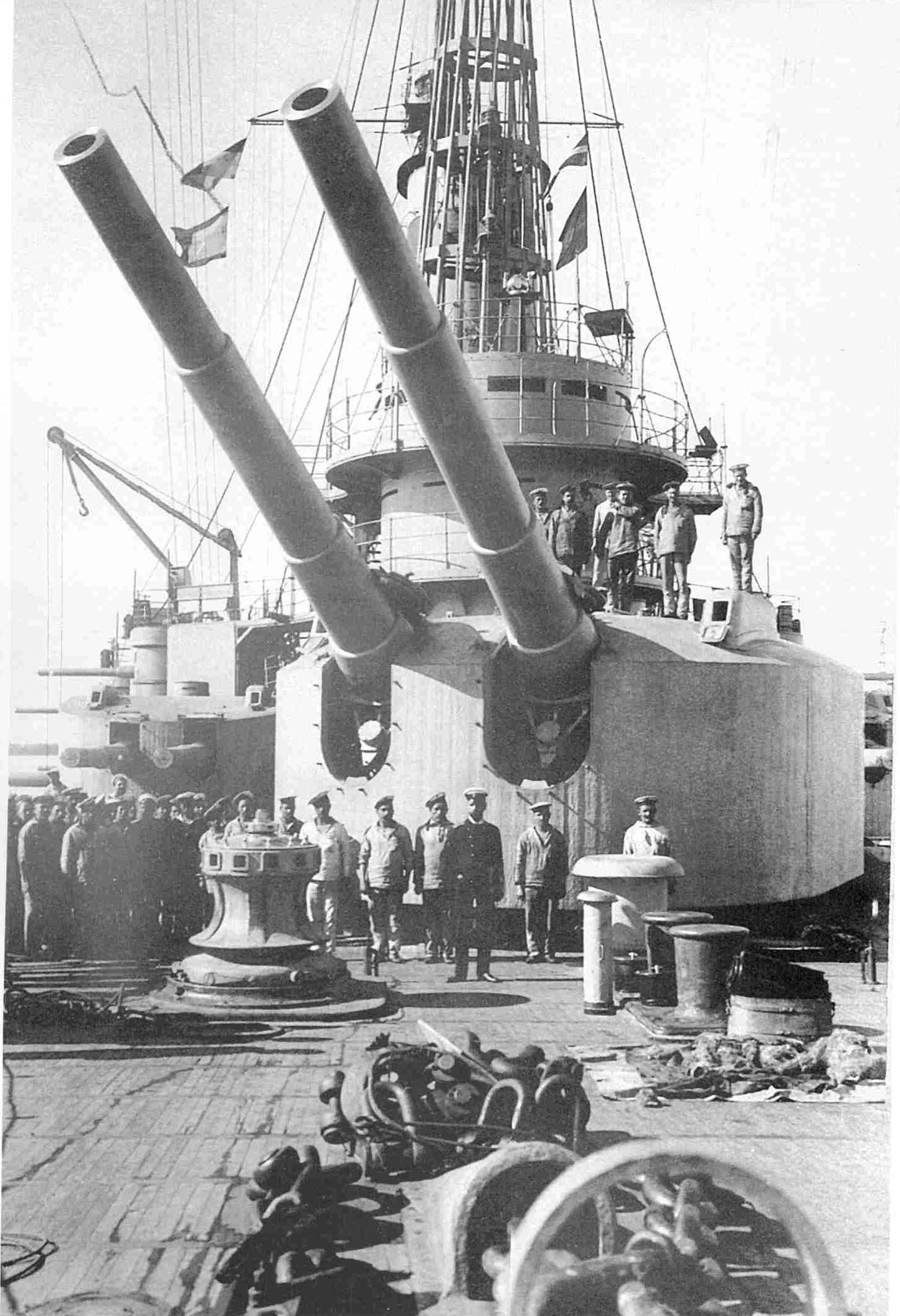 A main battery turret of the Imperial Russian battleship Andrei Pervozvannyy, 1912-1914.